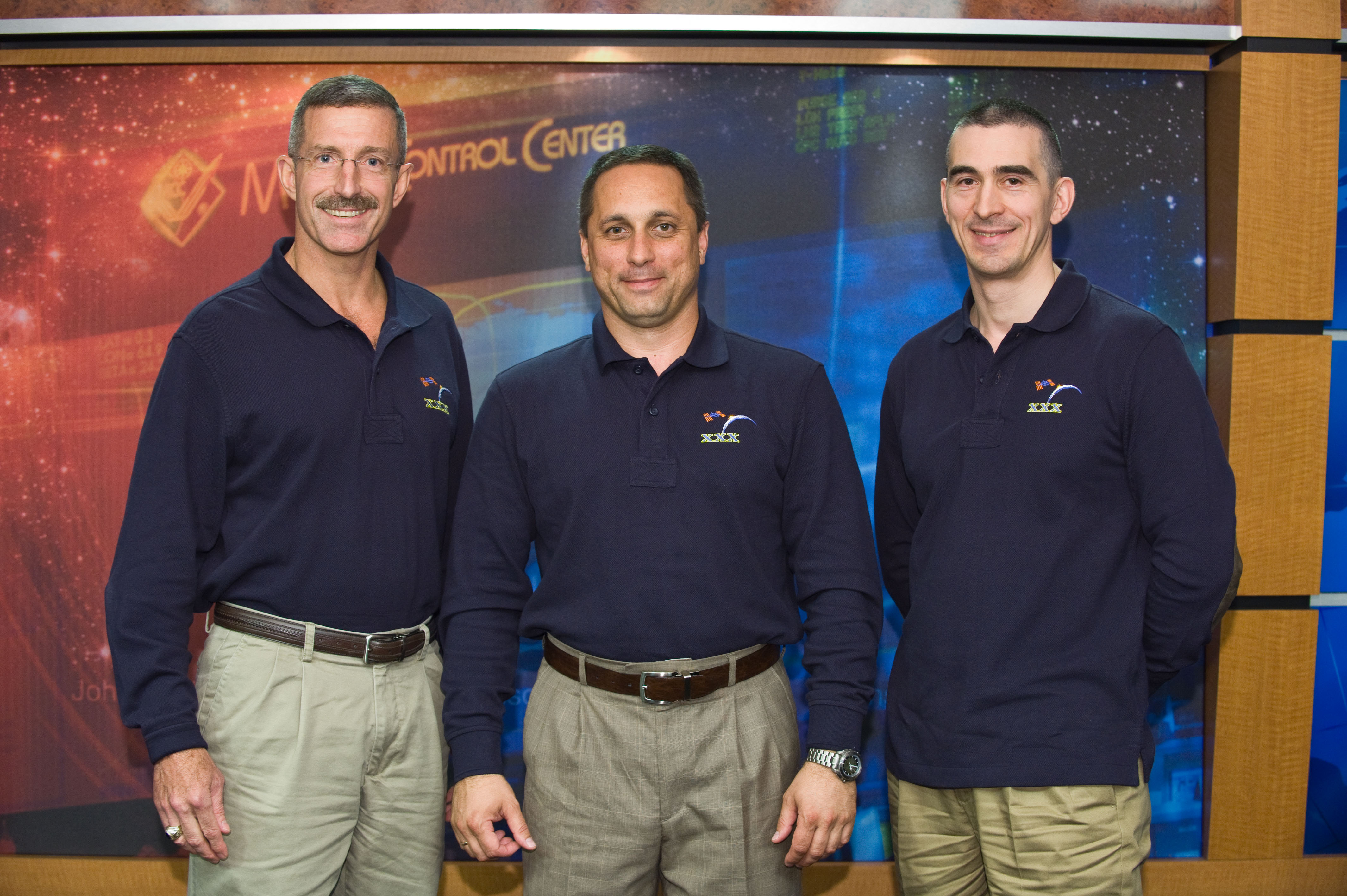 NASA astronaut Dan Burbank (from left) and Russian cosmonauts Anton Shkaplerov and Anatoly Ivanishin are set to launch aboard a Soyuz TMA-22 spacecraft on Sept. 22. The Expedition 29 crew members posed for photos and took questions from the news media on July 27 at NASA's Johnson Space Center.